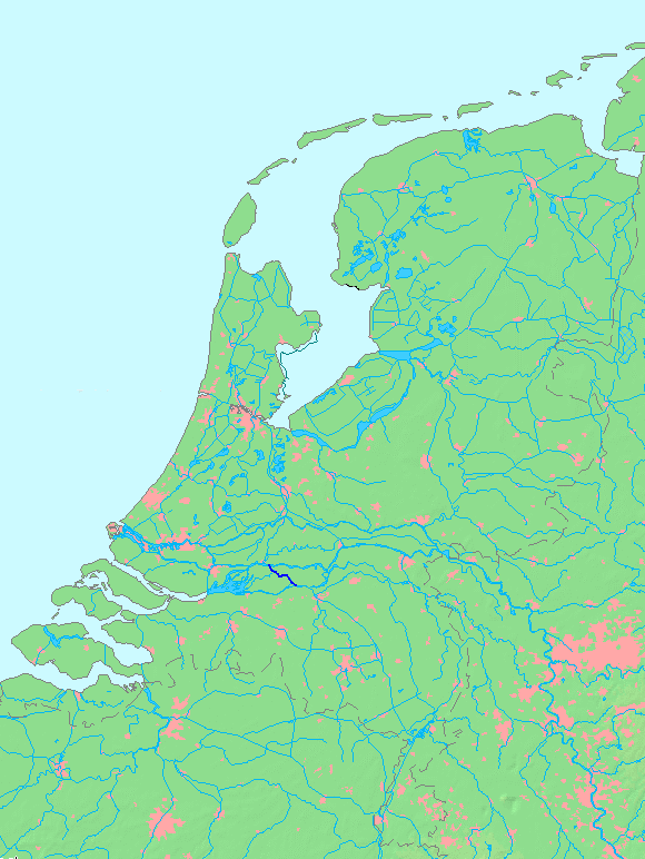 Location of a waterway (river/canal) in the Netherlends